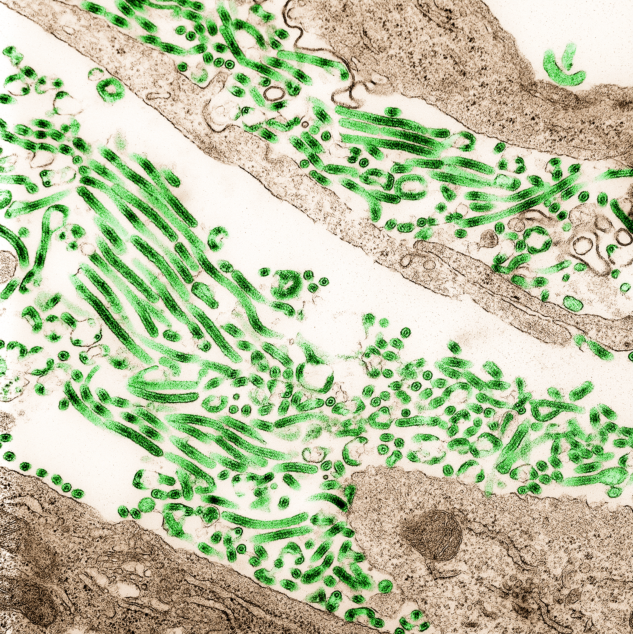 Colorized transmission electron micrograph of Ebola virus particles (green) found both as extracellular particles and budding particles from chronically-infected African green monkey kidney cells (brown).